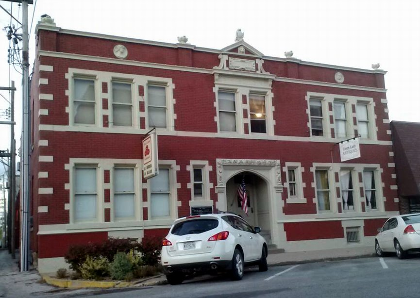 The Grim Building, Kirksville, Missouri. This building is listed on the National Register of Historic Places. Constructed in the early 1900s, t was originally a clinic and offices for two physician brothers, Ezra and Edward Grim.